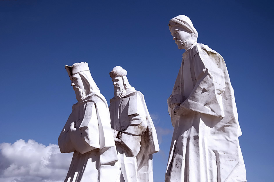 Three Wise Men Portico (Pórtico dos Reis Magos) in Natal, Brazil.